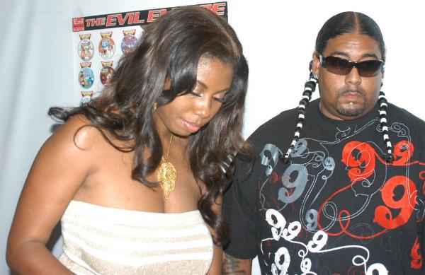 Candace Von at Evil Angel Party.jpg